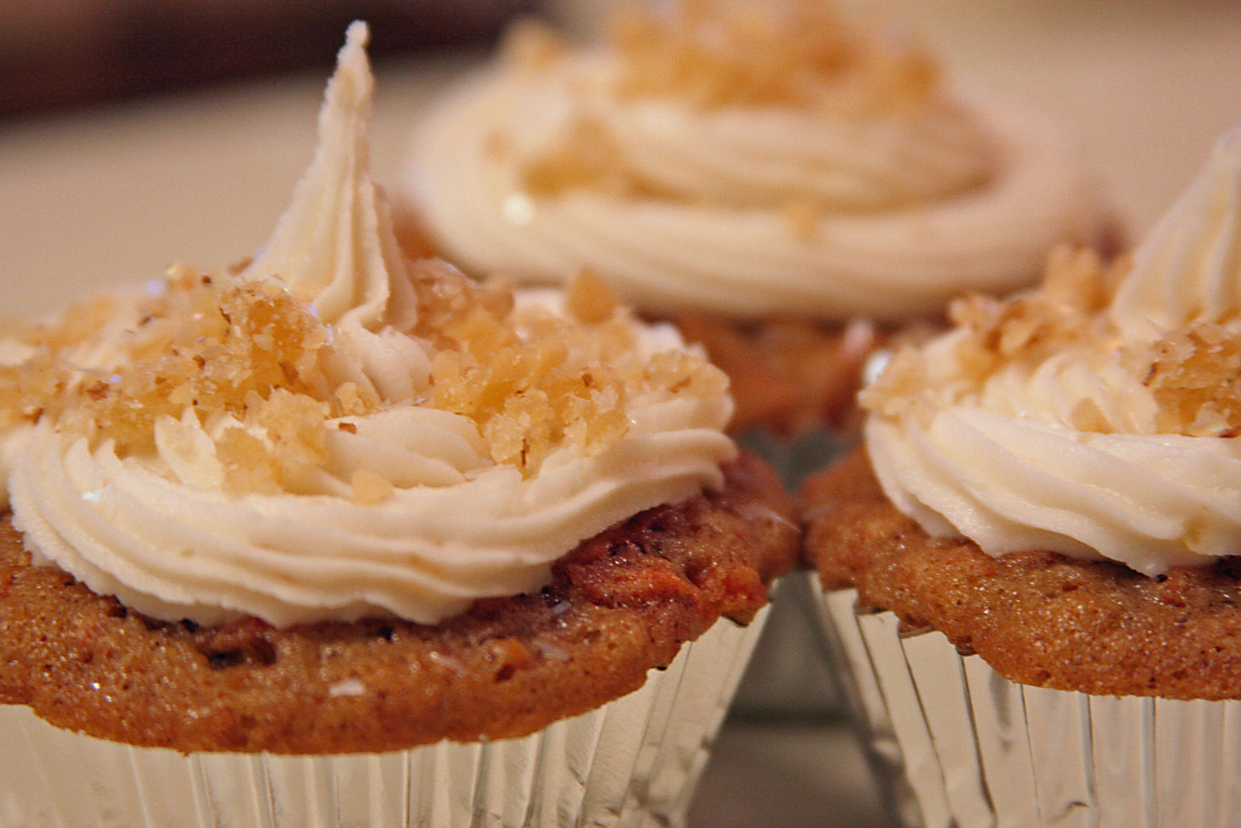 Buttercream Cupcake Bakery's carrot cake cupcake with candied ginger icing.